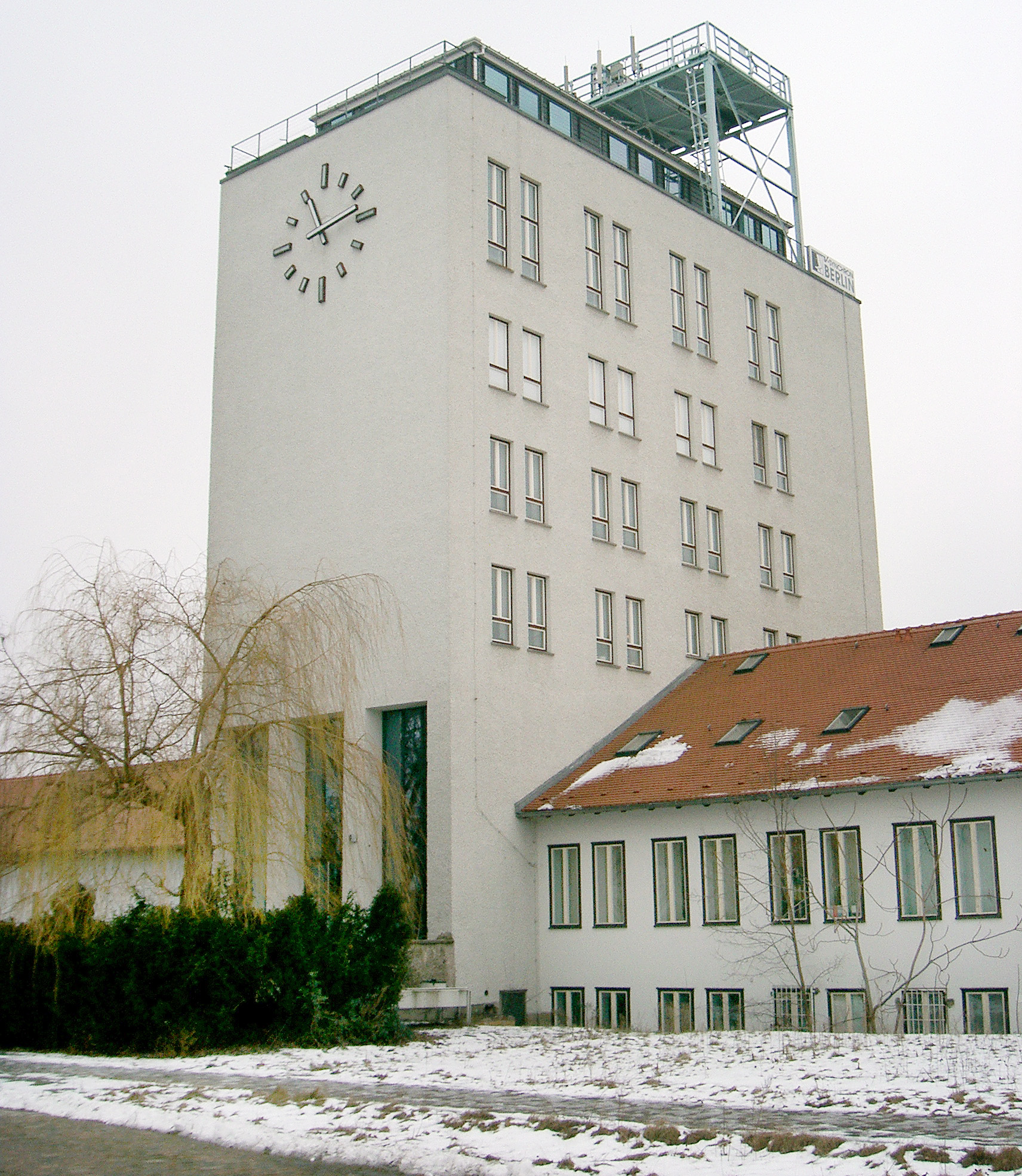 Tower on the area of the former east german television.